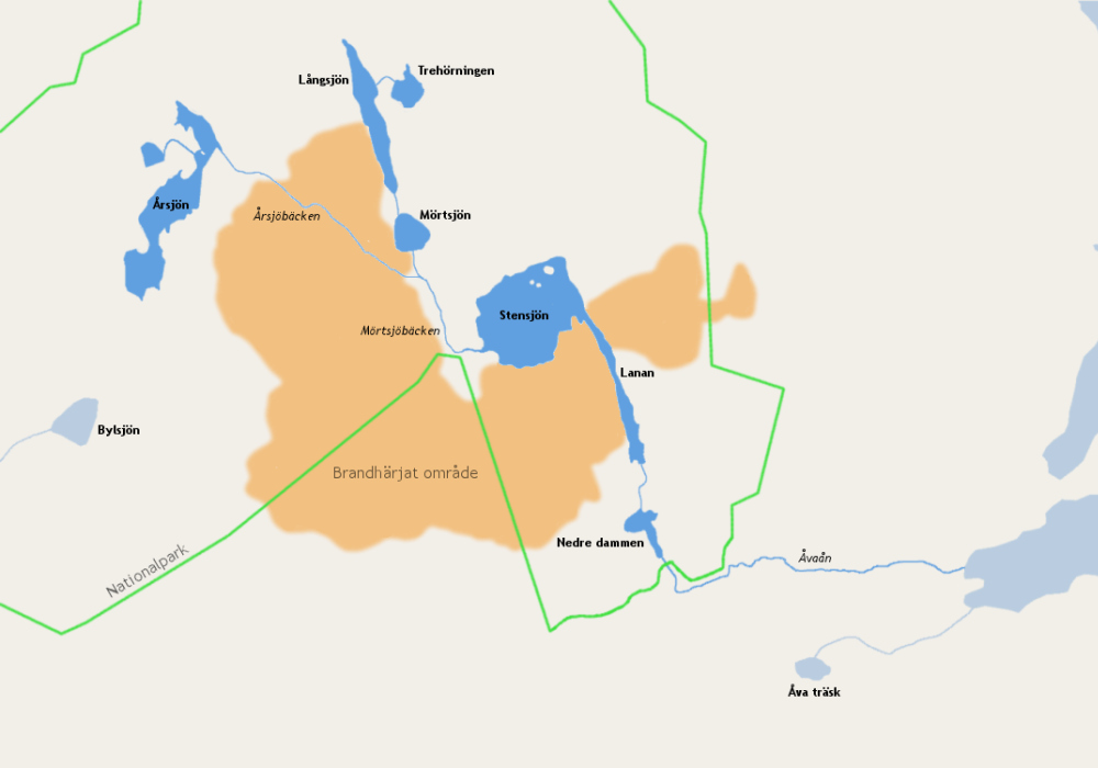 Map over Åva å drainage basin and Tyresta National Park (within green borders). Name of lakes are in bold and streams in italics. Area devastated by wildfire in 1999 in brown.